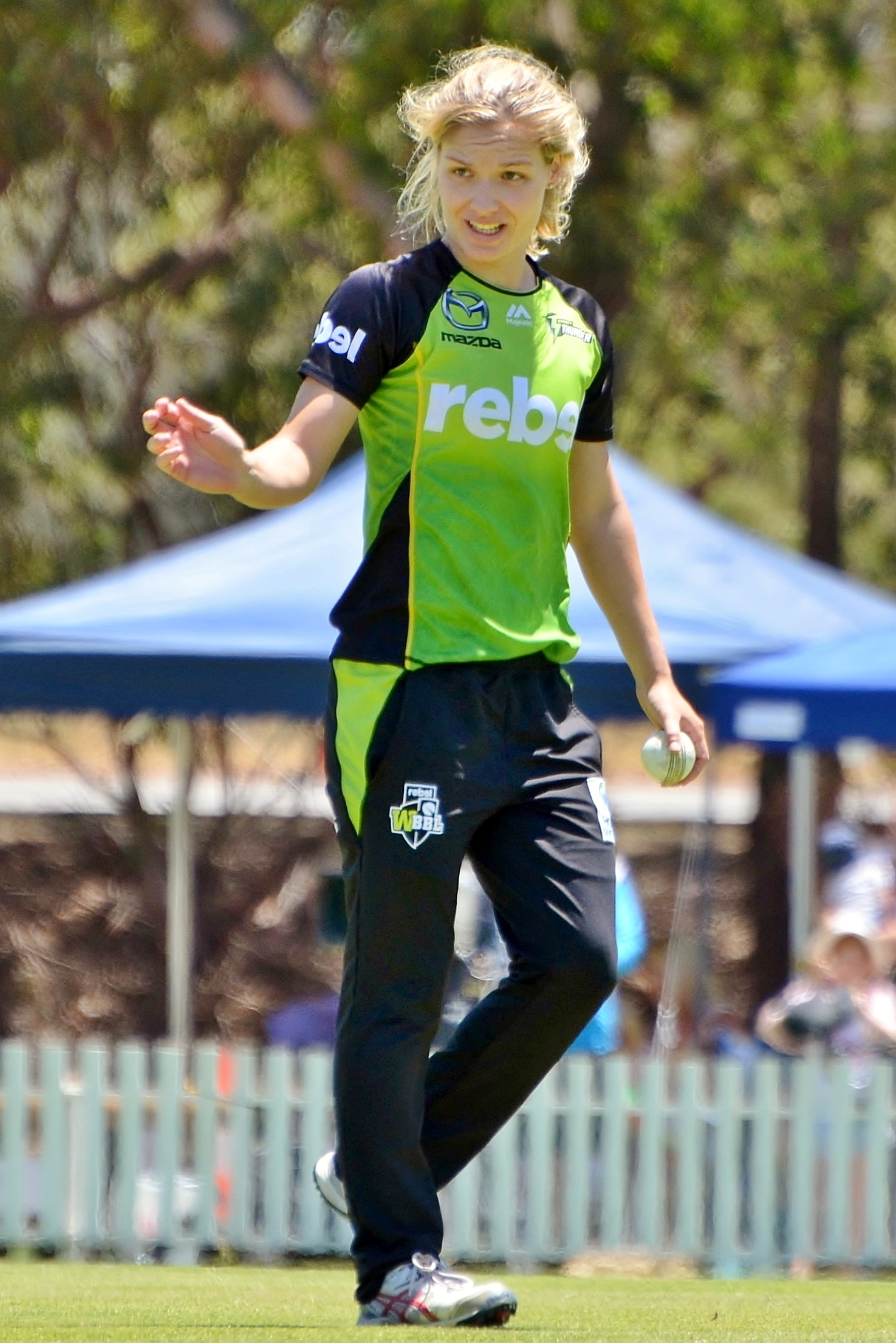 Nicola Carey is about to bowl the final ball for Sydney Thunder against the Perth Scorchers, in a WBBL match at Lilac Hill Park in Perth. The Thunder ended up winning the match by one run.